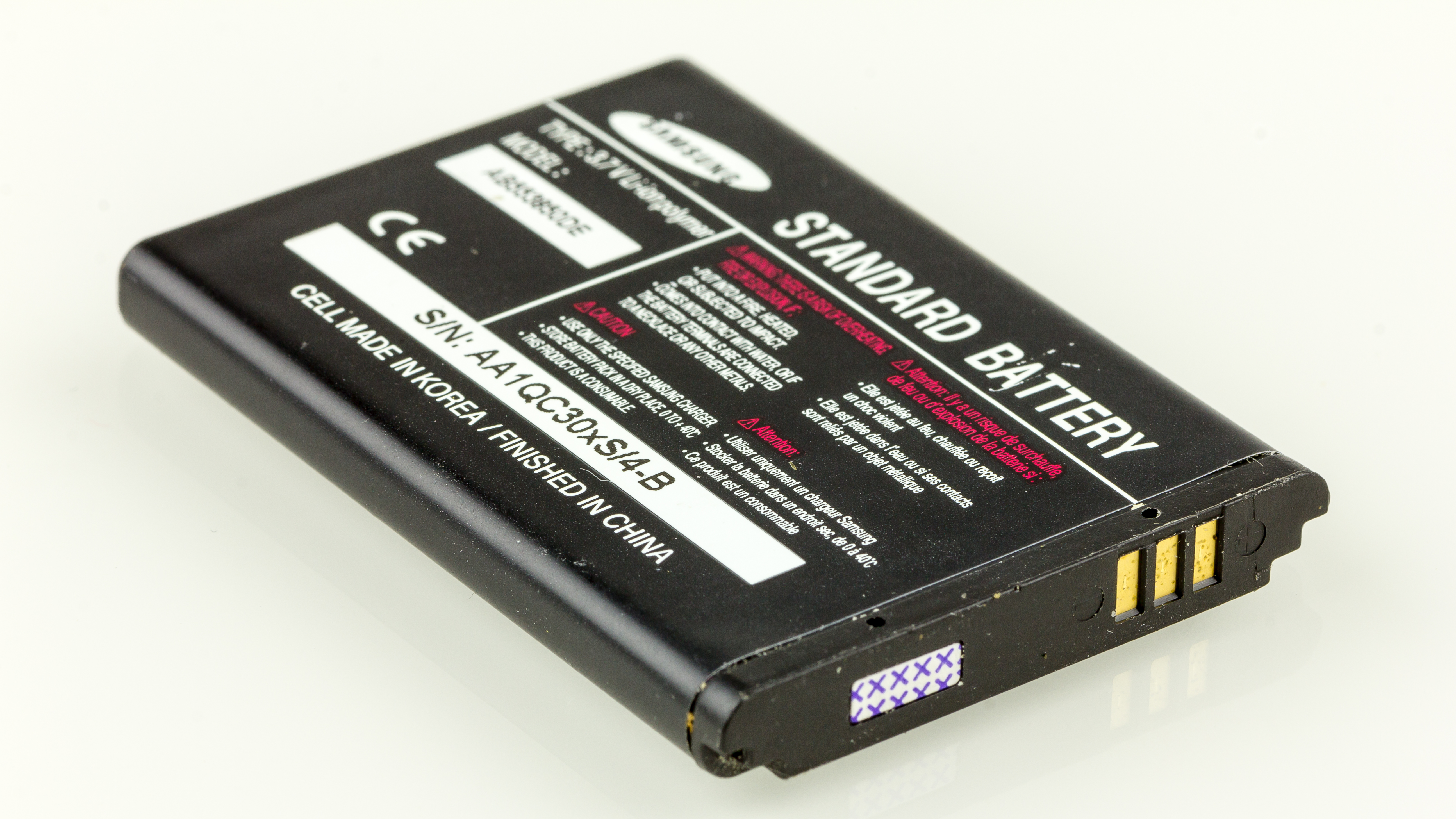 Samsung 3.7V Li-ion polymer battery, Model AB553850DE. Used in a Samsung SGH-D880 mobil phone